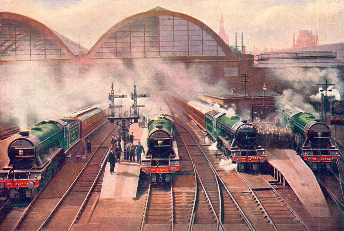 The Morning Rush from King's Cross to the North 10:15am Leeds Express 10:5am Scotch Express 10:0am Non-Stop 'Flying Scotsman' 10:20am Peterborough